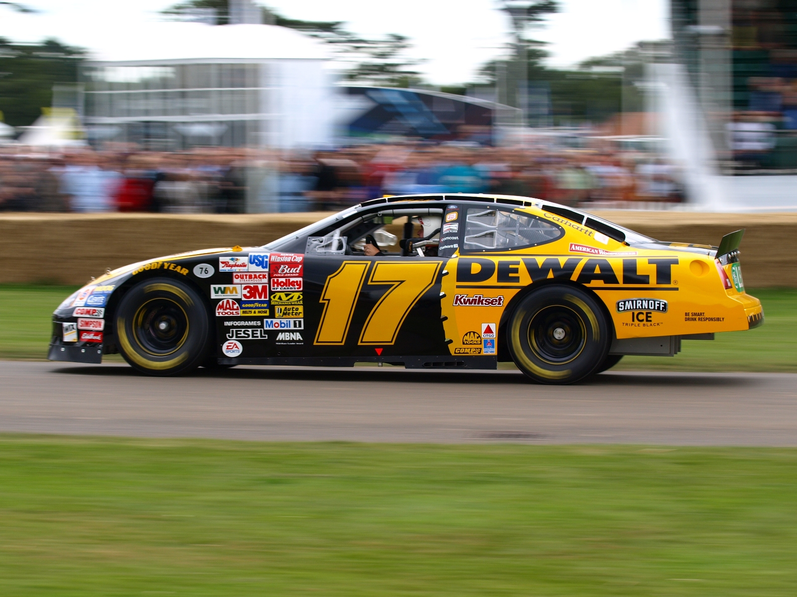 Matt Kenseth's NASCAR car at Goodwood Festival of Speed 2008